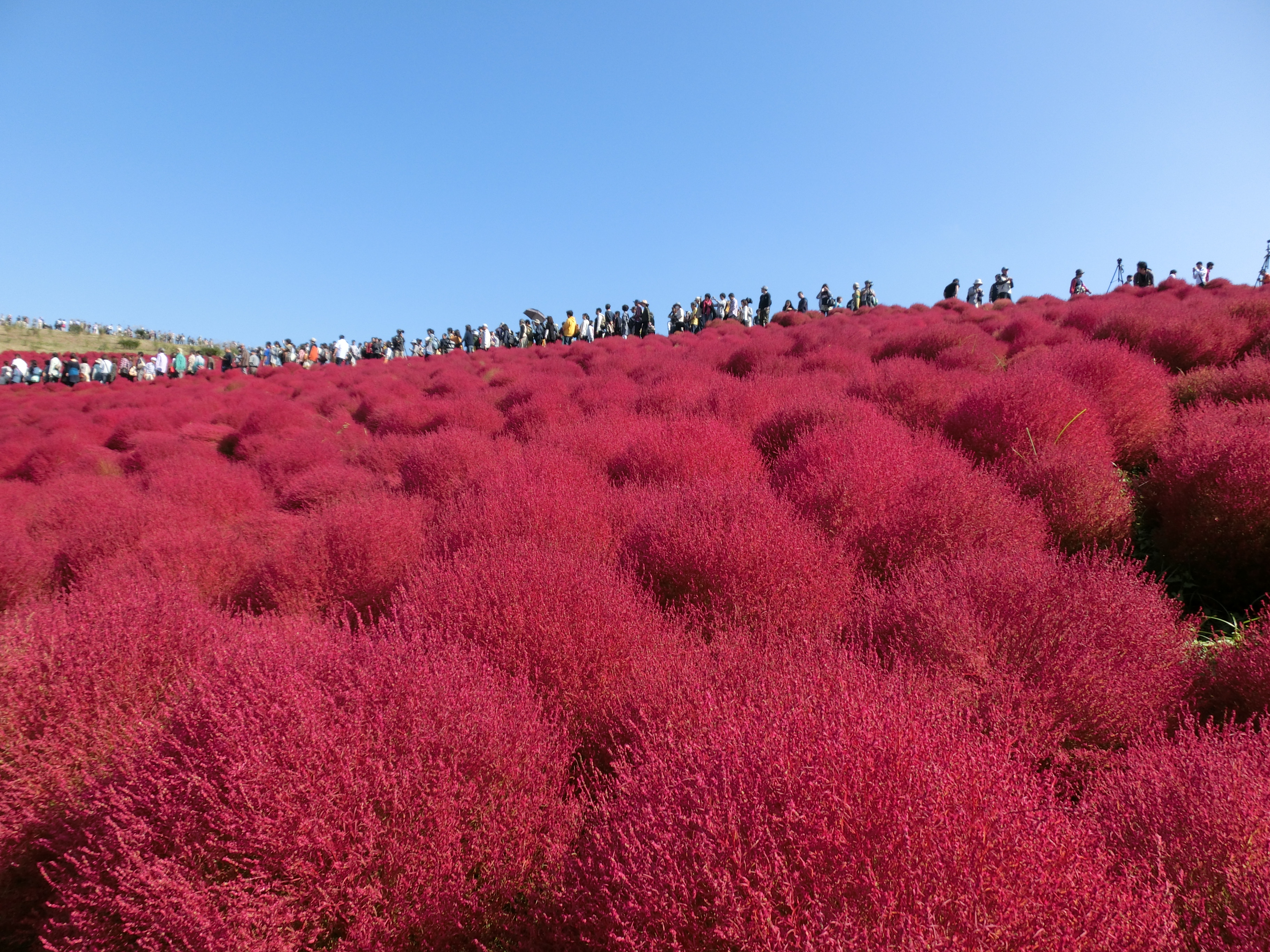 Miharashi no Oka (Hitachi Seaside Park)